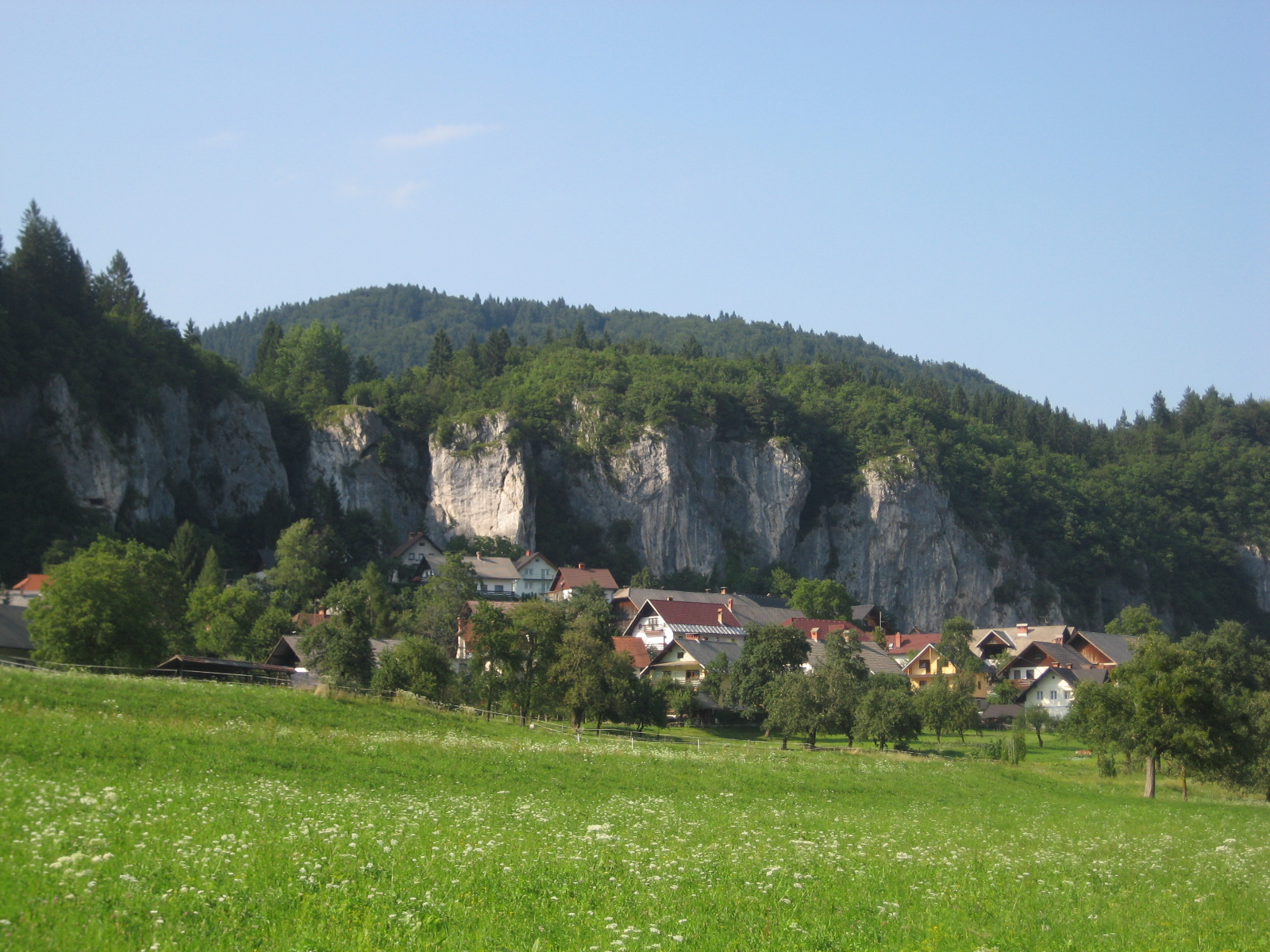 Bohinjska Bela, village in Slovenia.